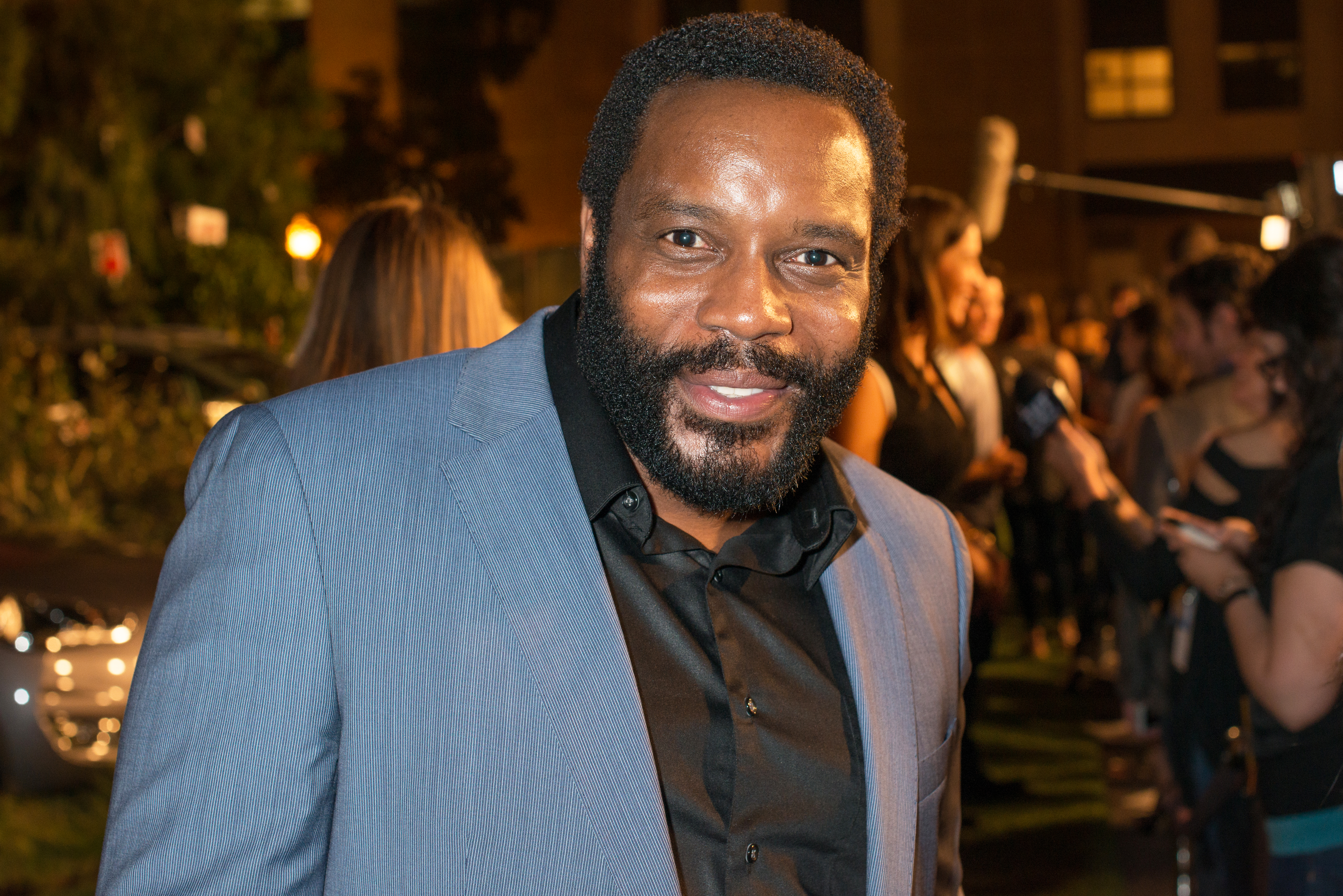 Chad Coleman at a Walking Dead event in 2013